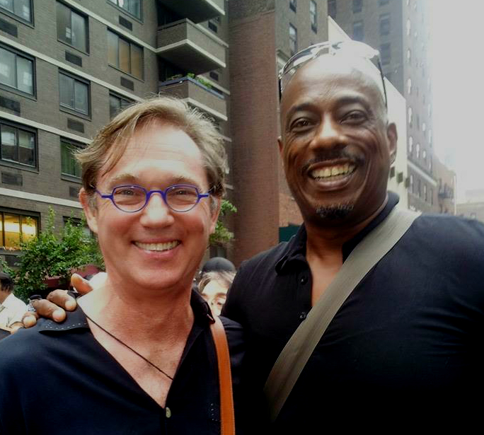 Opera star Stacey Robinson (right) meets in New York City with actor Richard Thomas of The Waltons, in 2014 at a Save the Earth Protest Rally for Climate Change. Robinson is a pro-environmental activist who believes that all humans should agree that it is important that, above all else, we have to protect the Earth, which is "the one thing binds us all no matter our political leanings." (Photo courtesy of photographer Mary Biggs; modifications (cropping, tone) by Tom Sulcer. Exact date is approximate.)